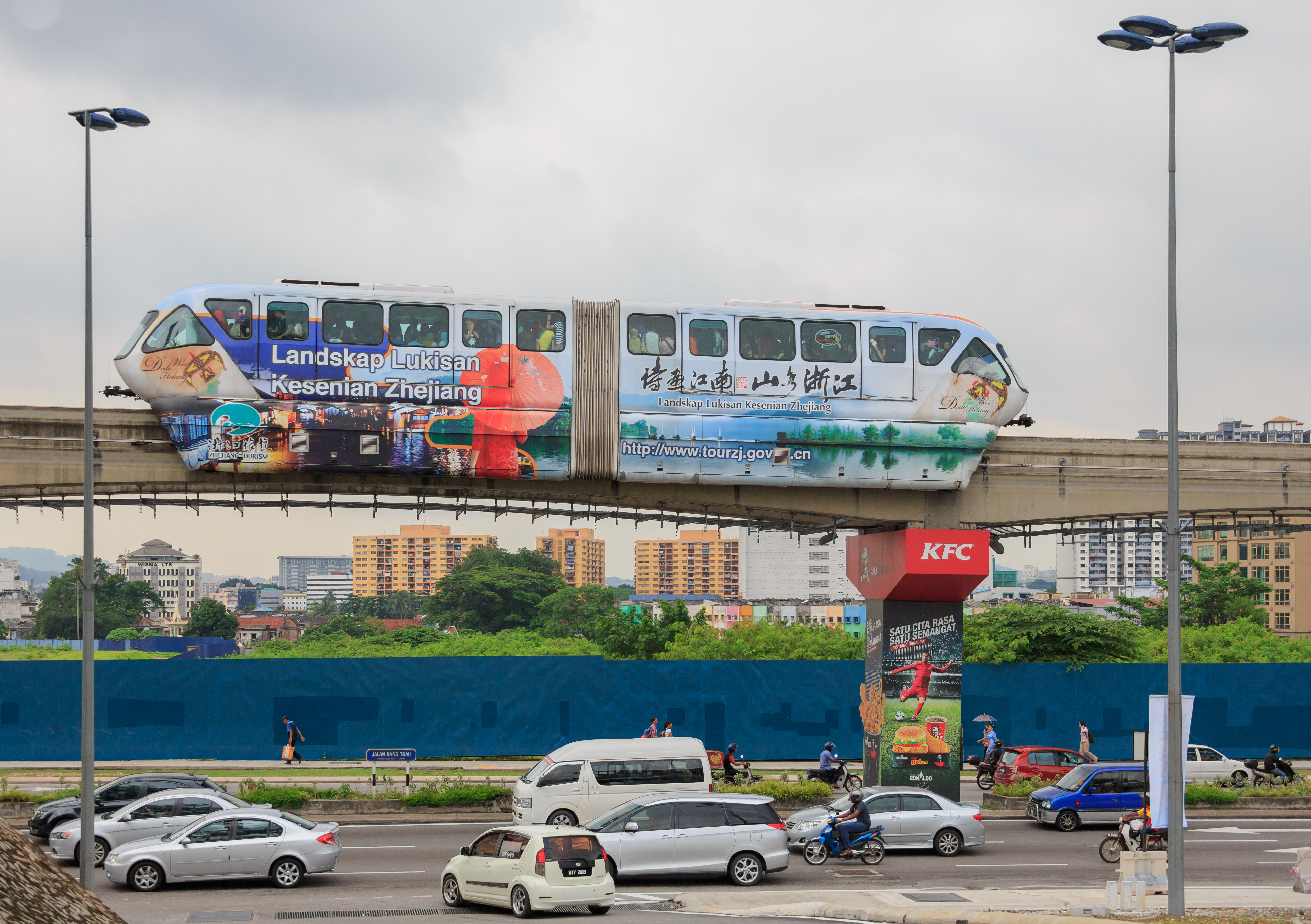 Kuala Lumpur, Malaysia: Monorail between Station Imbi and Station Hang Tuah